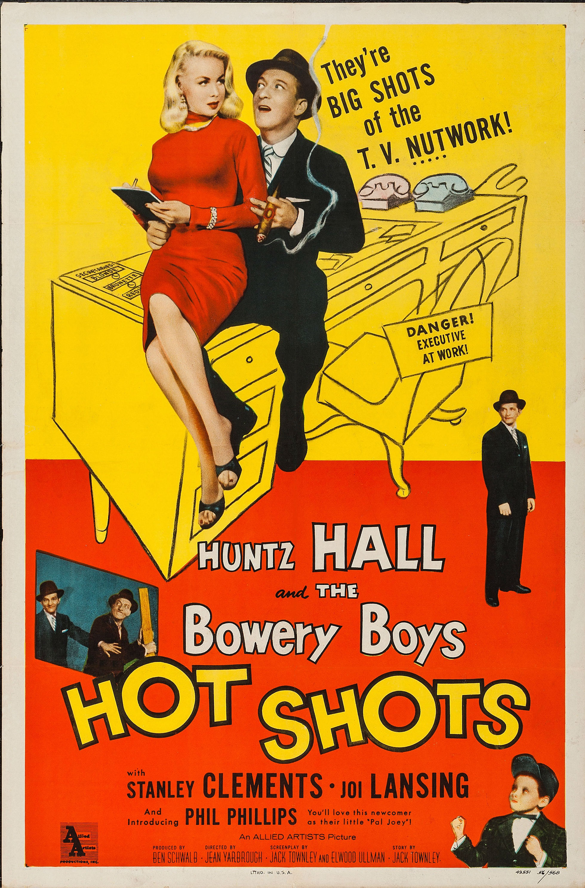 Poster for the 1956 film Hot Shots. The item has no copyright marks as can be seen in the link. At bottom is Litho in USA and the numbers 49551 56/568.